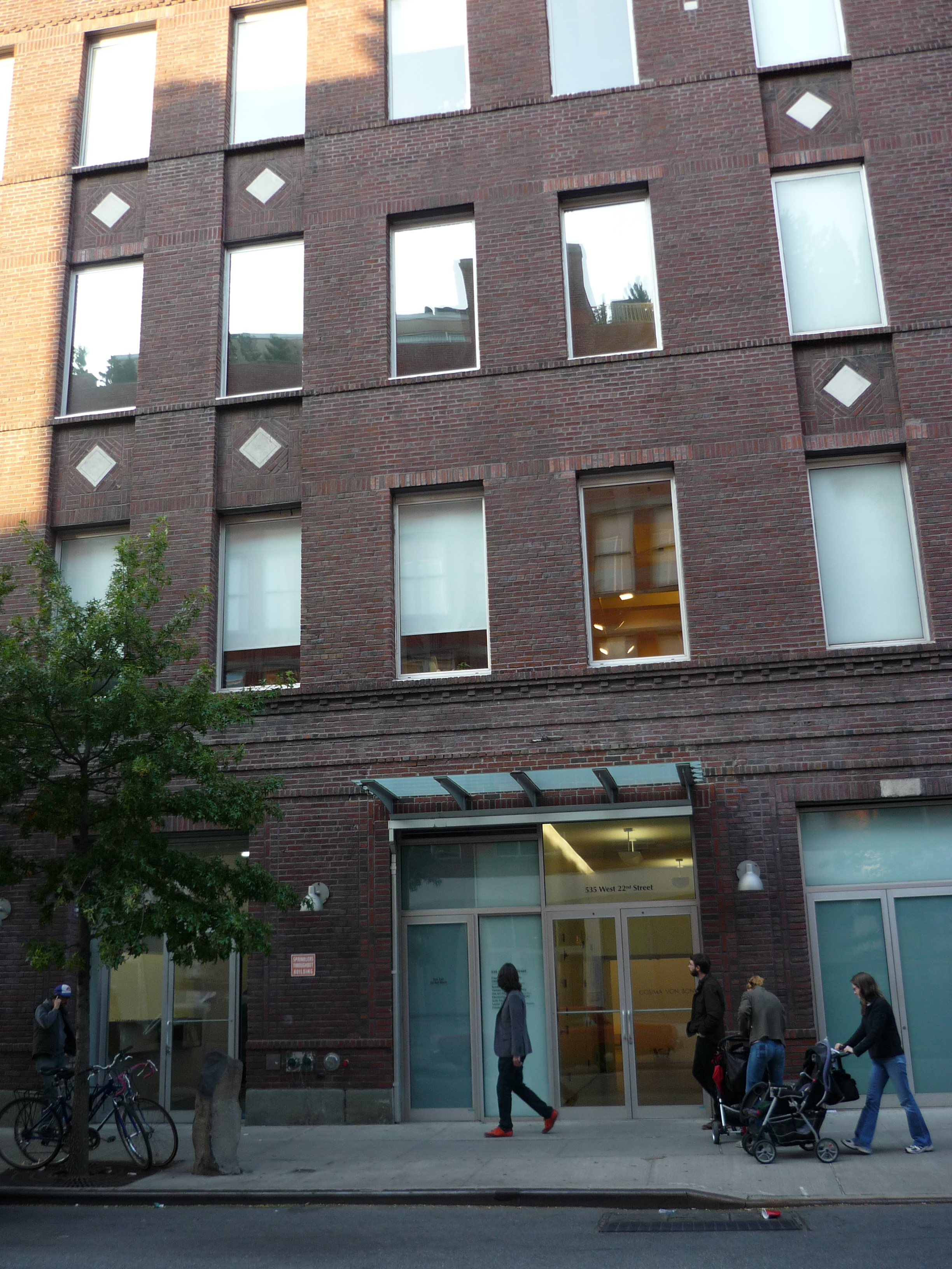 This photo is of Wikis Take Manhattan goal code E2, Dia Art Foundation.